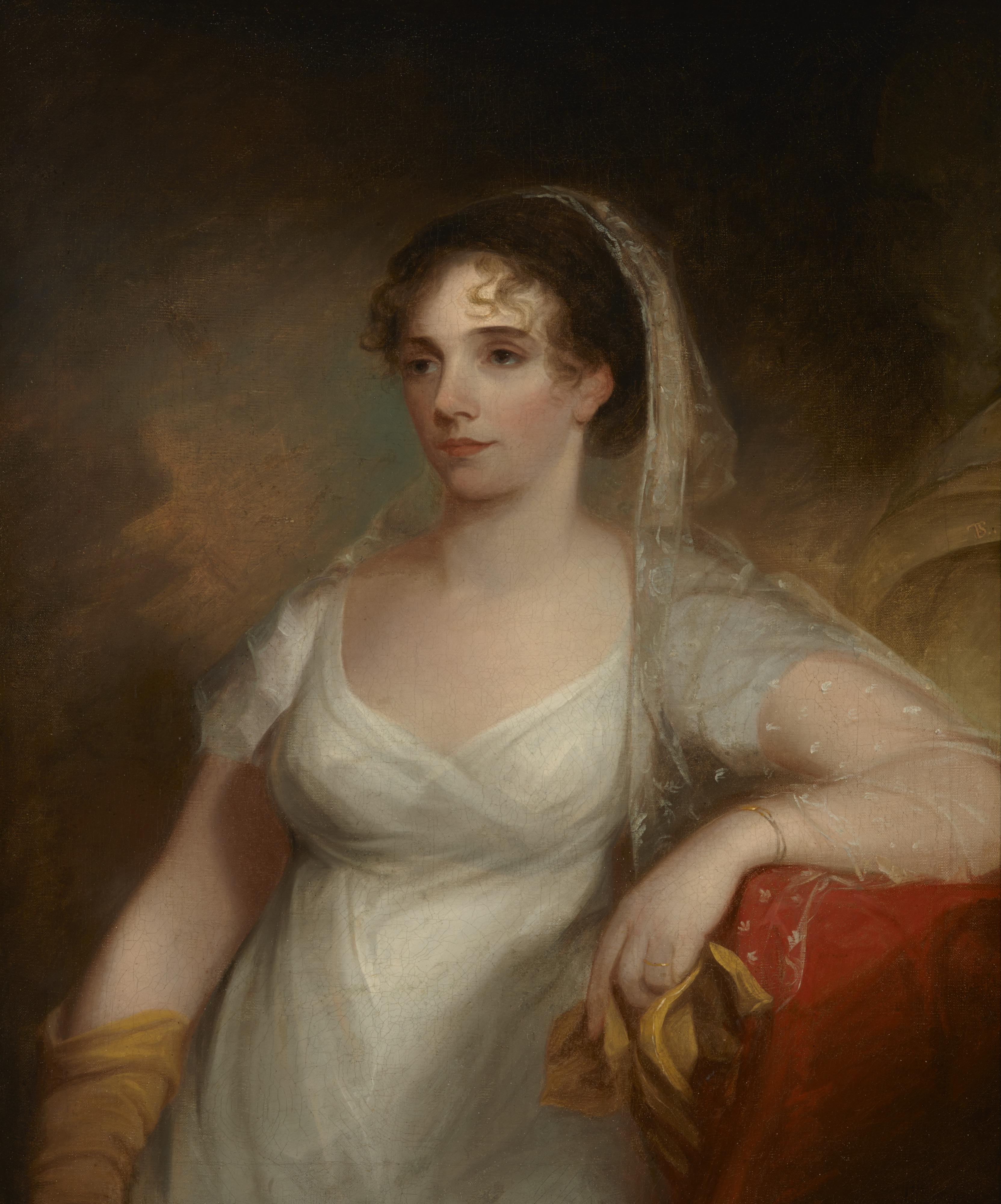 Title(s): Mrs. Joseph Hopkinson Creator(s): Thomas Sully Culture: American Date: 1808 Materials/Techniques: oil on canvas Classification: Paintings Object Type: Oil Painting Credit Line: Gift of the Thomas Gilcrease Foundation, 1964 Accession No: 0126.2107 Department: Art Marks/Inscriptions: Signed with colophon, "TS".